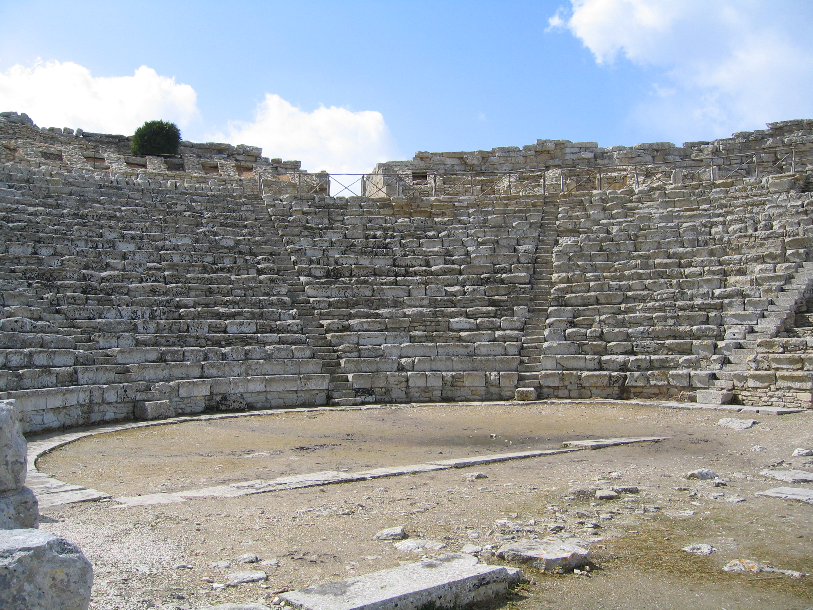 Greek Theater - Segesta, Italy